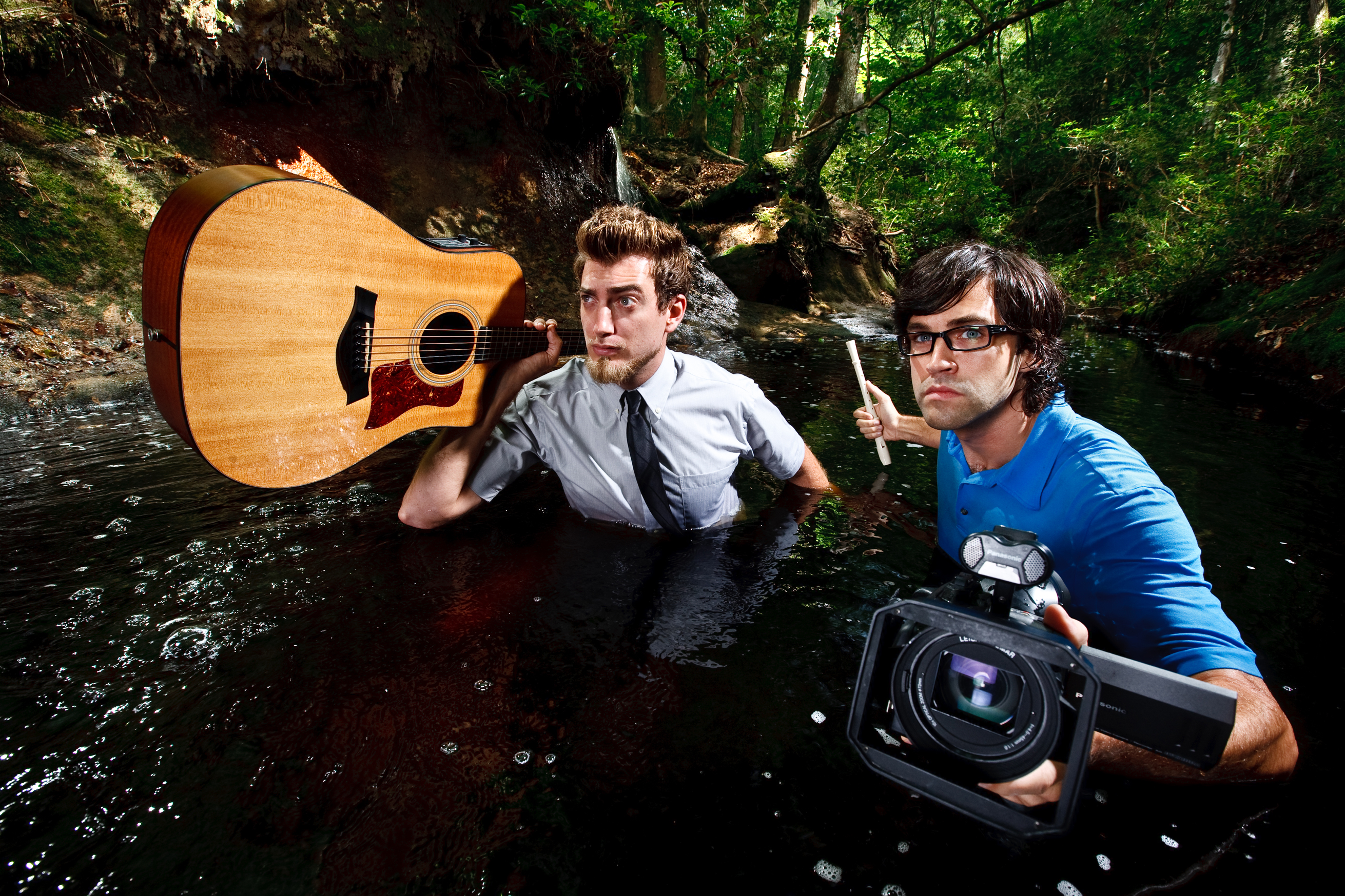 Rhett and Link in creek